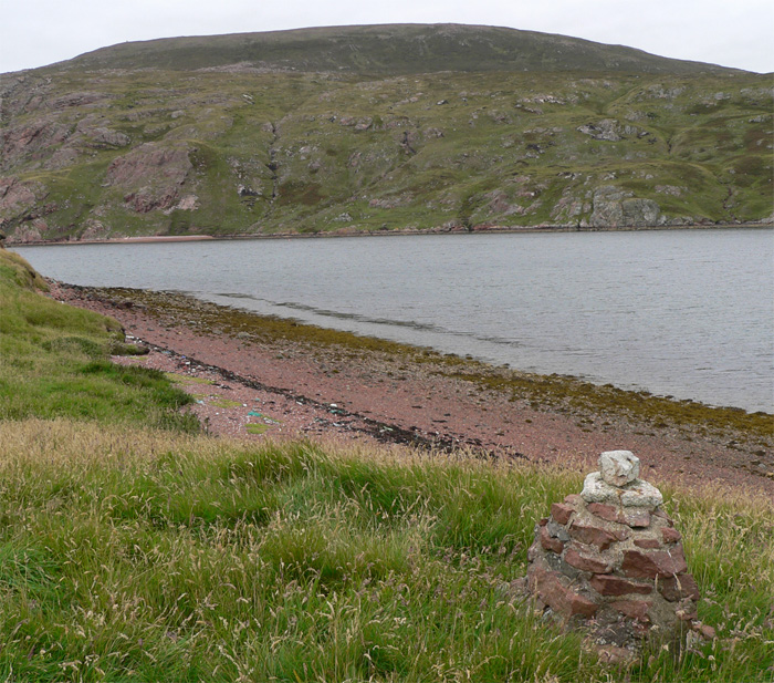 The Hollanders' Graves, Ronas Voe, Mainland, Shetland, Scotland